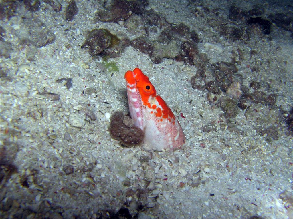 Brachysomophis crocodilinus, Philippines Panglao December 2005